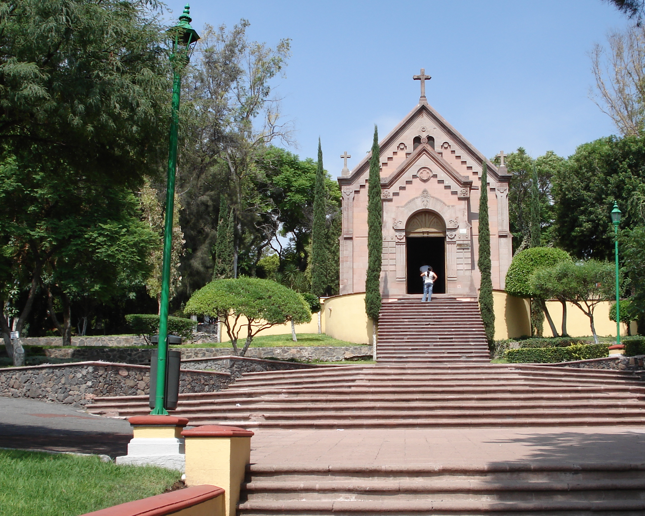 Cerro de las Campanas (Hill of the Bells), Querétaro City, Mexico